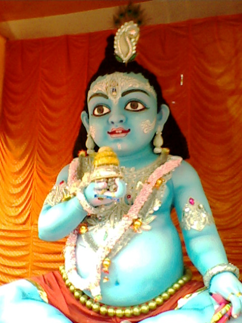 The infant version of Shri Krishna Bal Gopal.